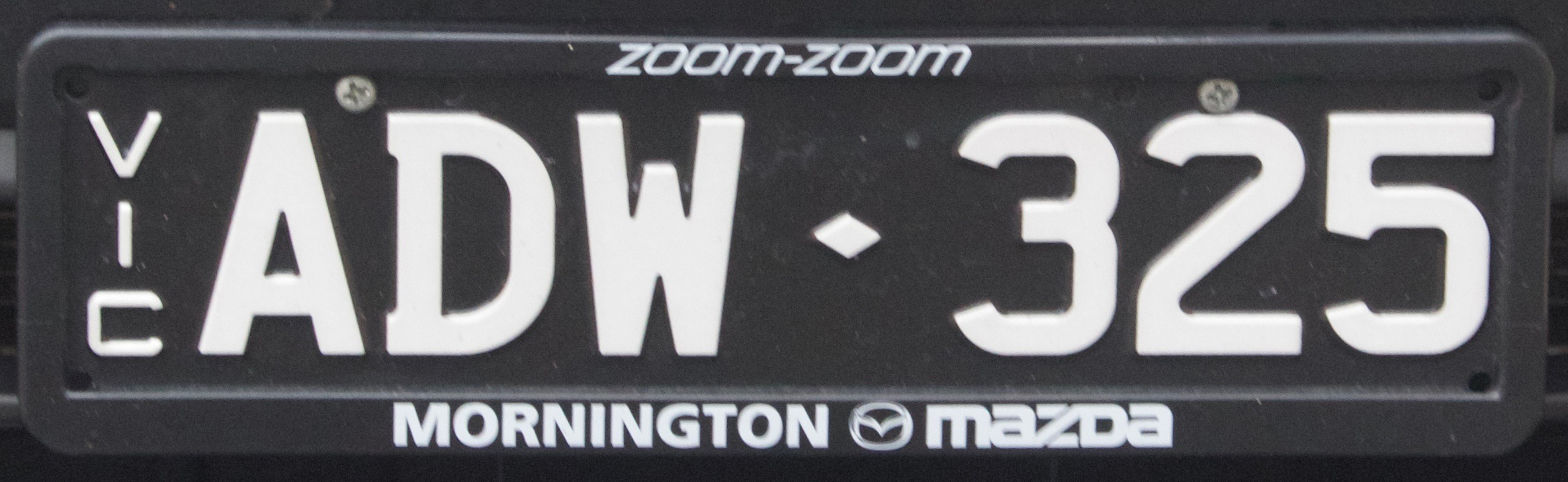 Victoria slimline plate ADW 325 registered to a Mazda CX-5